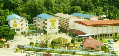 none